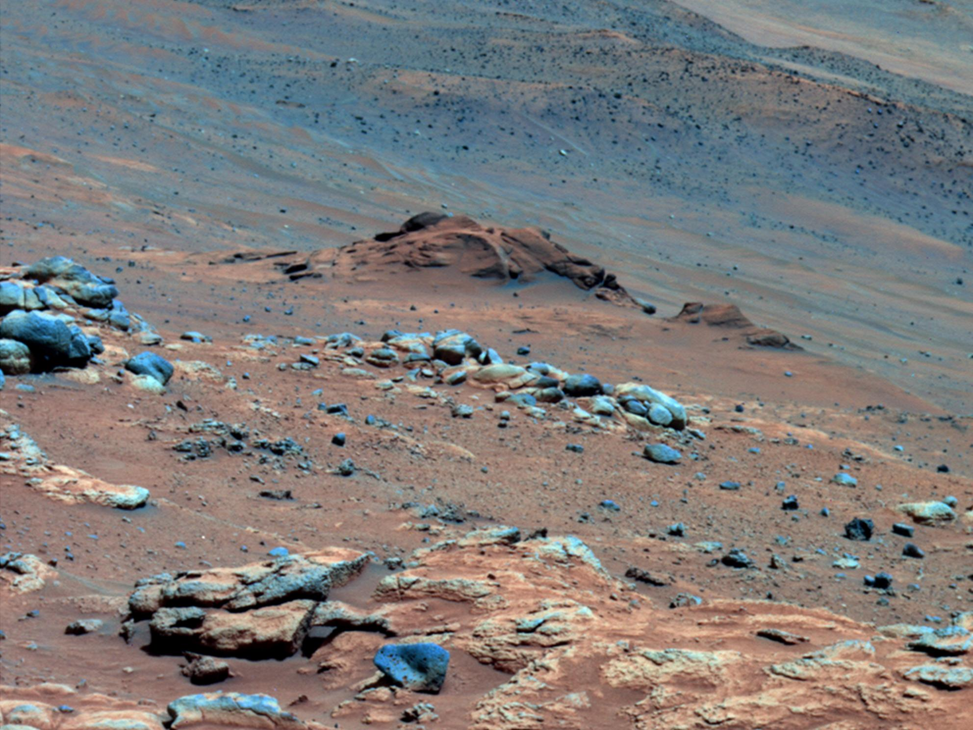 Lengthy detective work with data NASA's Mars Exploration Rover Spirit collected in late 2005 has confirmed that an outcrop called "Comanche" contains a mineral indicating that a past environment was wet and non-acidic, possibly favorable to life. Spirit used its panoramic camera to capture this view of the Comanche outcrop during the 689th Martian day, or sol, of the rover's mission on Mars (Dec. 11, 2005). The rover's Moessbauer spectrometer, miniature thermal emission spectrometer and alpha particle X-ray spectrometer each examined targets on Comanche that month. On June 3, 2010, scientists using data from all three spectrometers reported that about one-fourth of the composition of Comanche is magnesium iron carbonate. That concentration is 10 times higher than for any previously identified carbonate in a Martian rock. Carbonates originate in wet, near-neutral conditions but dissolve in acid. The find at Comanche is the first unambiguous evidence from either Spirit of its twin, Opportunity, for a past Martian environment that may have been more favorable to life than the wet but acidic conditions indicated by the rovers' earlier finds. In this image, Comanche is the dark reddish mound above the center of the view. The image is presented in false color, which makes some differences between materials easier to see. It combines three separate exposures taken through filters admitting wavelengths of 750 nanometers, 530 nanometers and 430 nanometers. The main Comanche outcrop is about 5 meters (16 feet) from left to right from this perspective. The paler material visible at bottom right is part of another outcrop, "Algonquin."